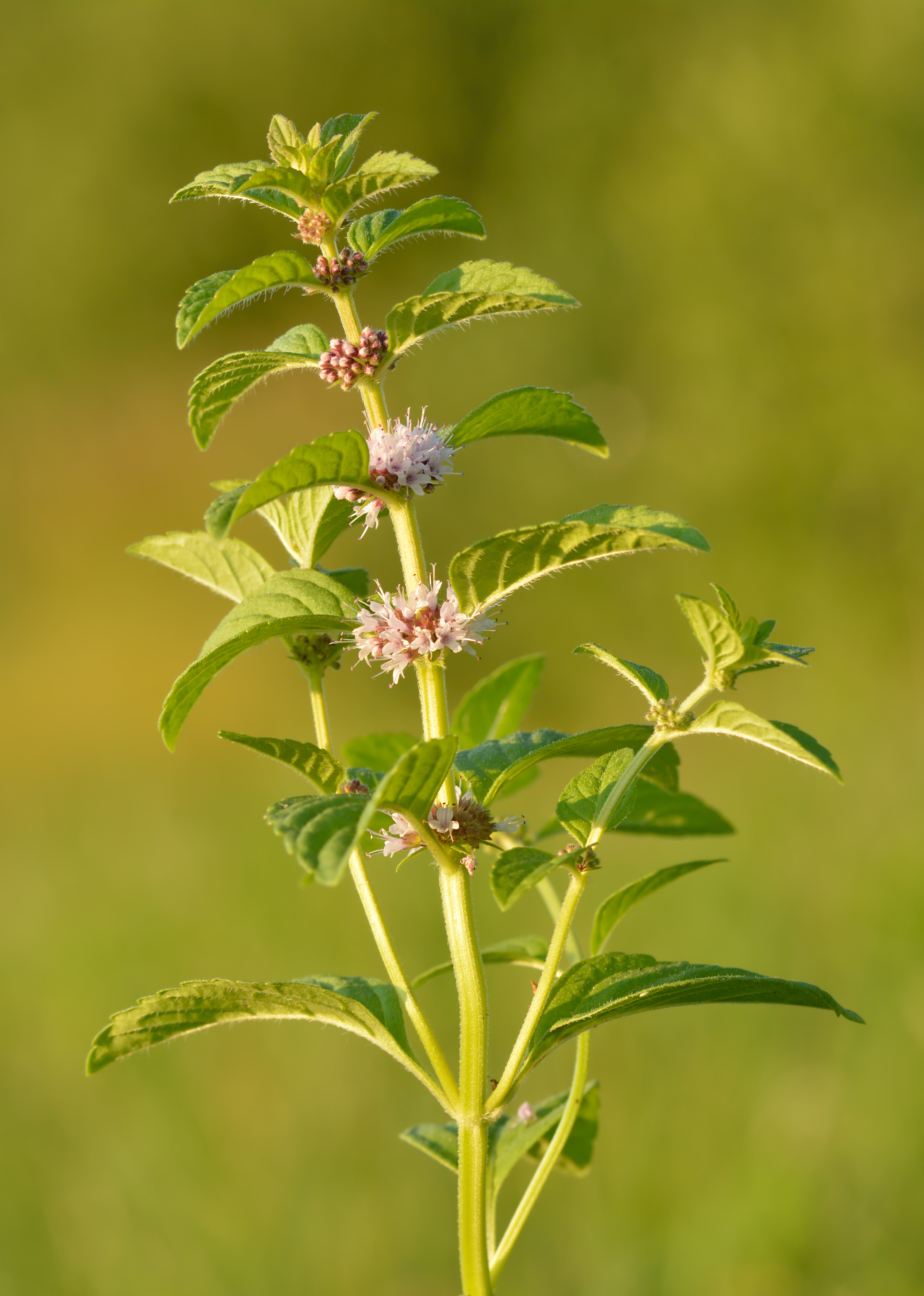 Mentha arvensis - field mint in Keila, Northwestern Estonia